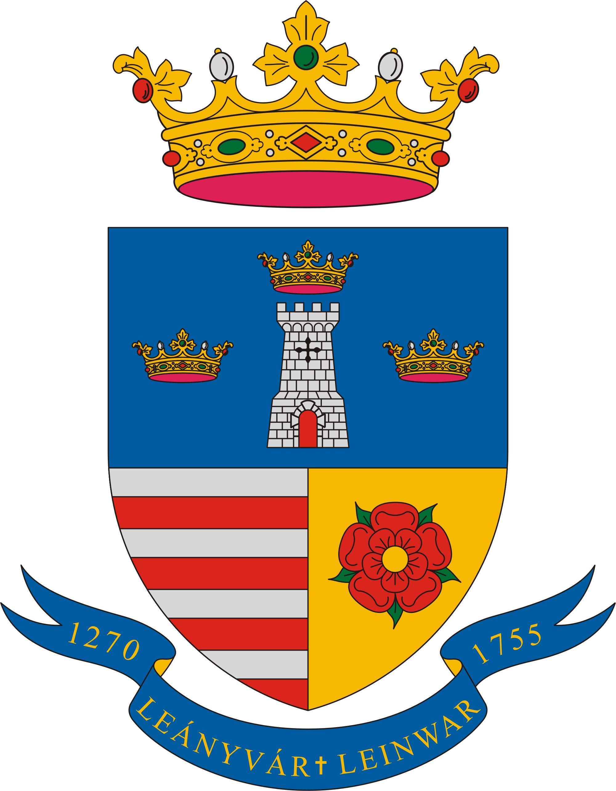 Coat of arms of Leányvár, Hungary